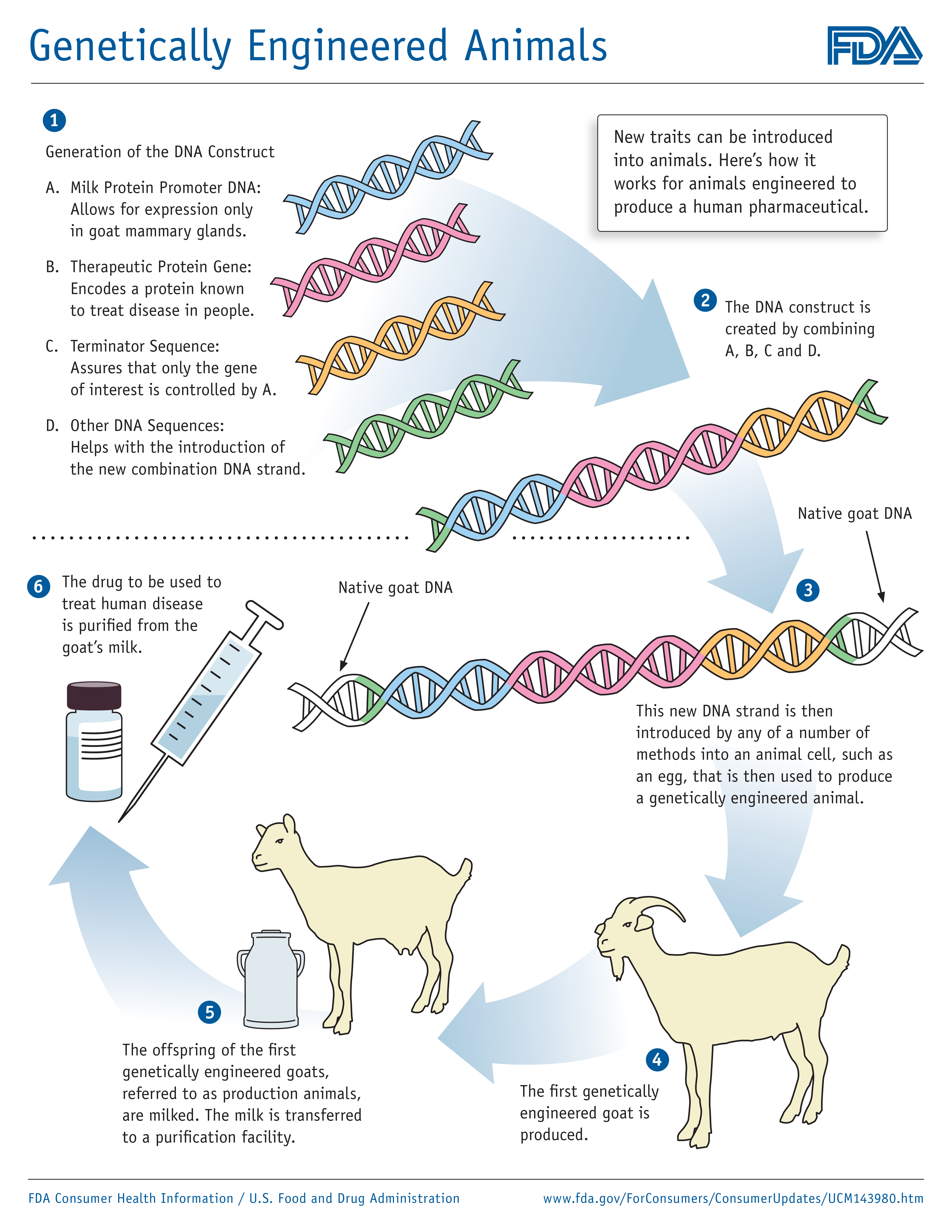 Genetic engineering holds the promise of significant benefits for human and animal health, agriculture, and the environment. This diagram illustrates how the milk from genetically engineered goats can help produce life-saving medicine for humans. In the traditional selective breeding process a number of genes are introduced into a plant or animal. This may include the gene responsible for the desired characteristic, as well as genes responsible for unwanted characteristics. By contrast, genetic engineering enables the introduction into the plant or animal of only the specific gene or genes responsible for the characteristic(s) of interest, without also introducing genes responsible for unwanted characteristics. For more information visit FDA's website, and read these Consumer Updates: • Regulation of Genetically Engineered Animals • AquAdvantage GE Salmon is as Safe to Eat as Non-GE Salmon • Creating Human Drugs From Genetically Engineered Animals This information graphic is free of all copyright restrictions and available for use and redistribution without permission. Credit to the U.S. Food and Drug Administration is appreciated but not required. For more privacy and use information visit: FDA graphic by Michael J. Ermarth